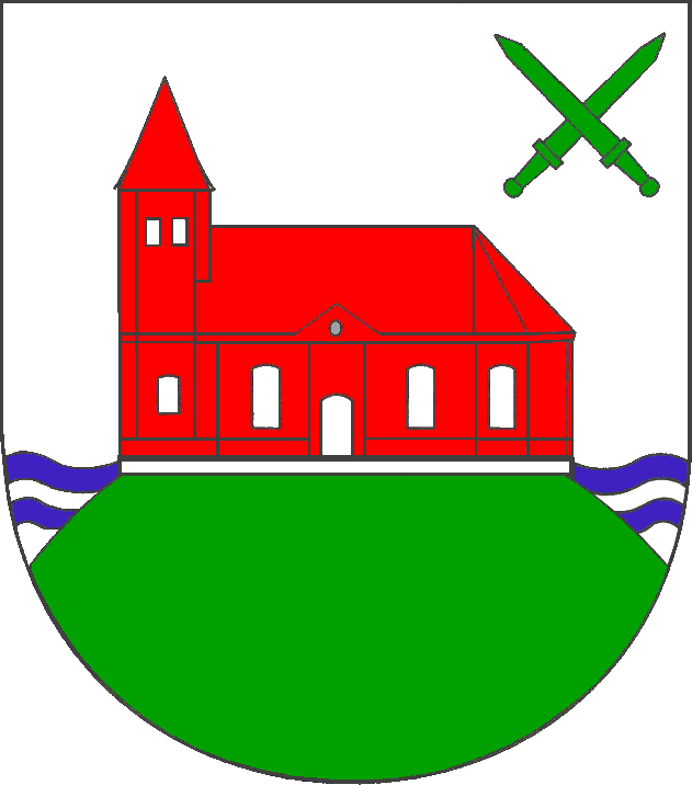 Coat of arms of the municipality Wöhrden in Schleswig-Holstein, Germany.